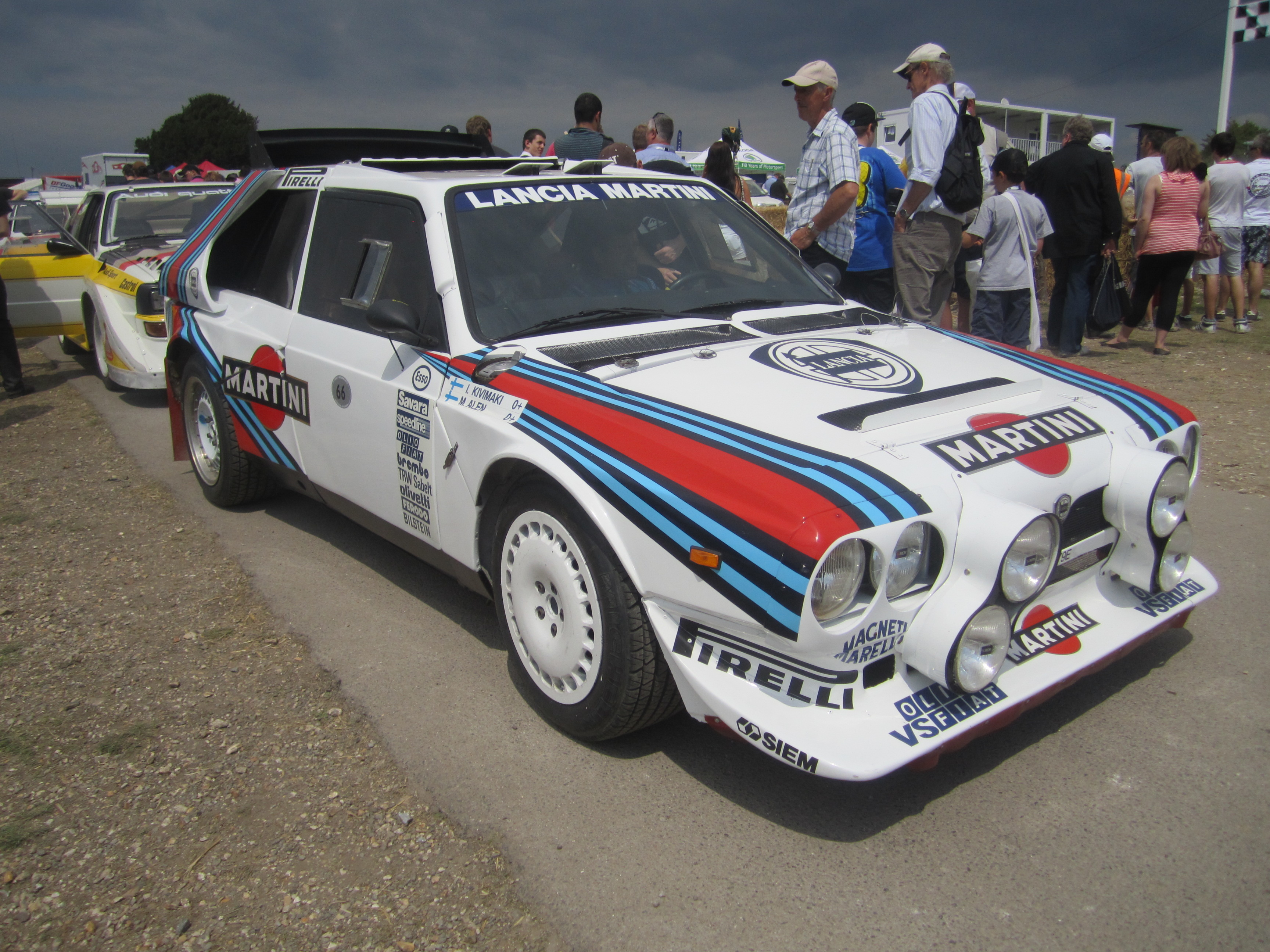 1.8 litre turbocharged 4cyl Taken at the Goodwood Festival of Speed England 2011- Forest Rally Stage Contender